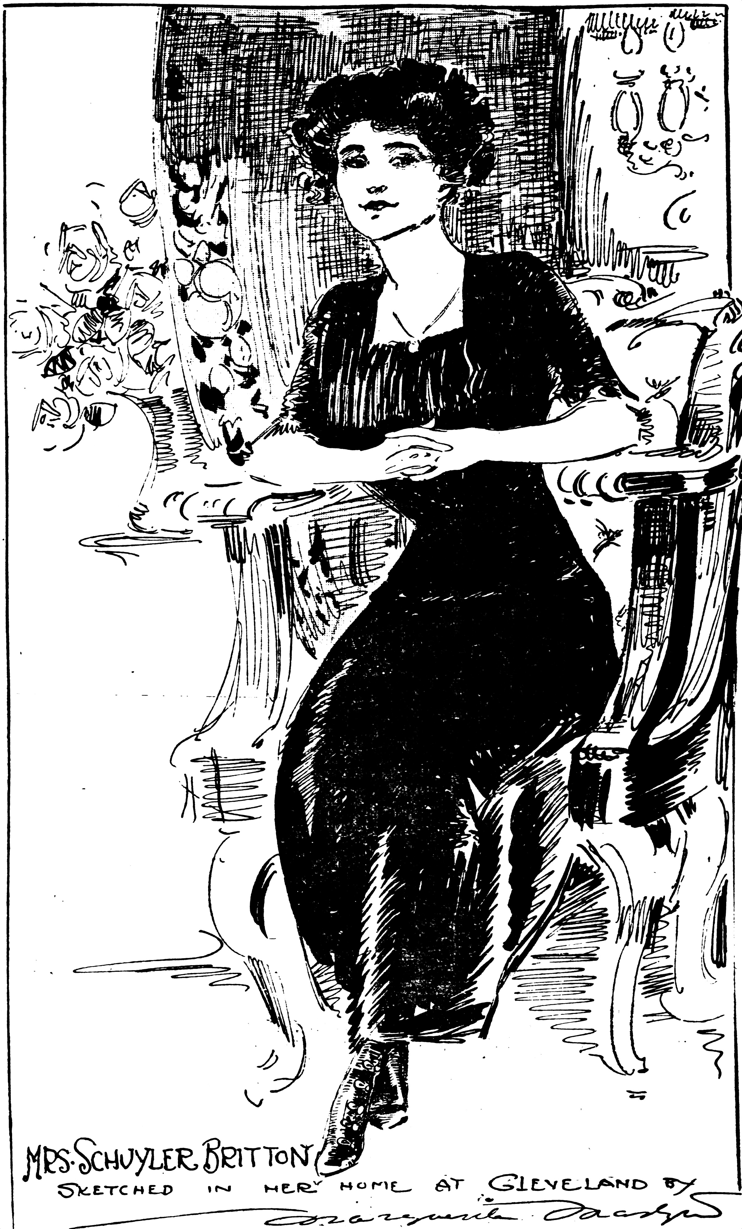 Helene Hathaway Robison Britton, owner of the St. Louis Cardinals baseball team.